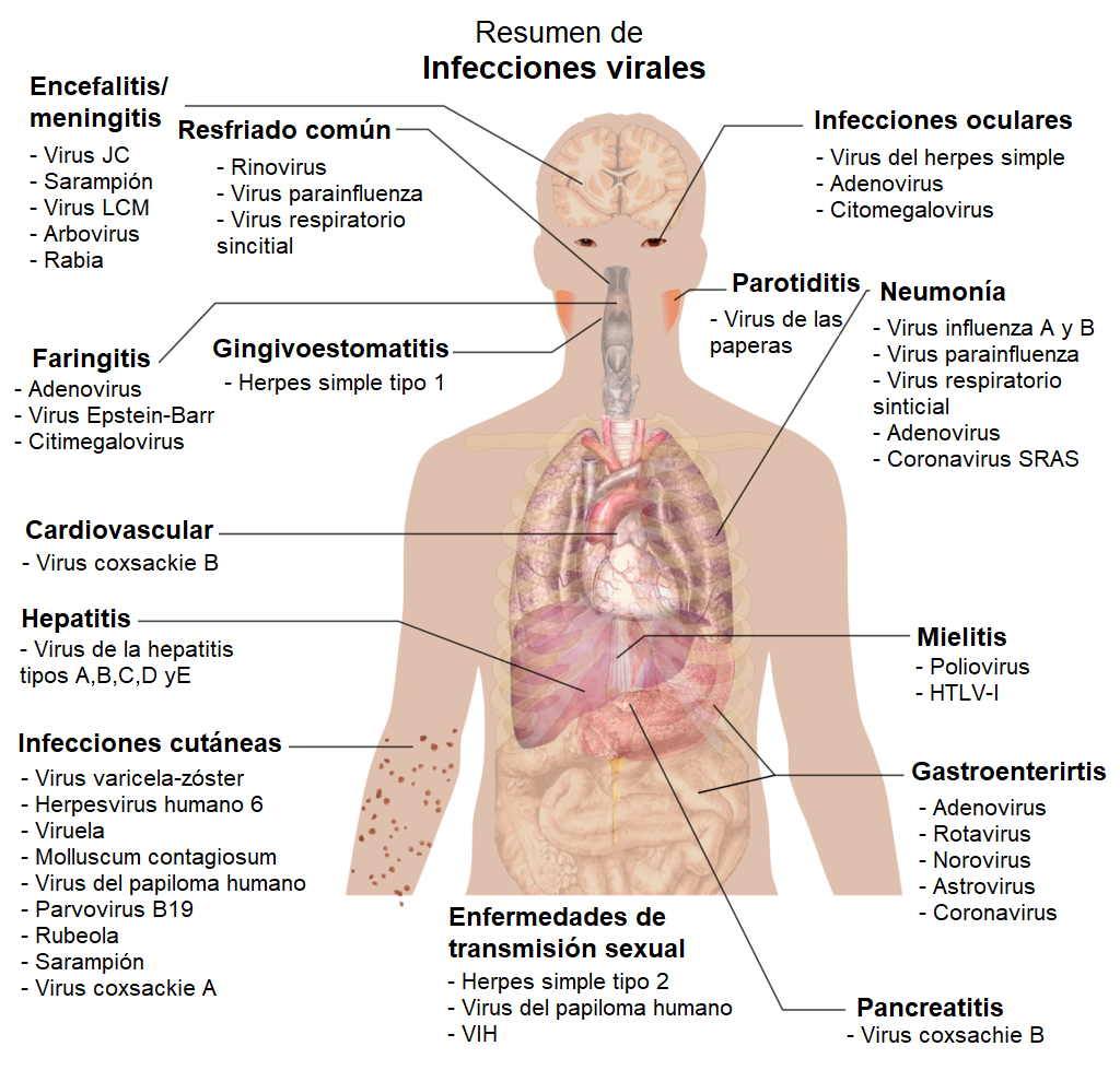 viral infections and involved species